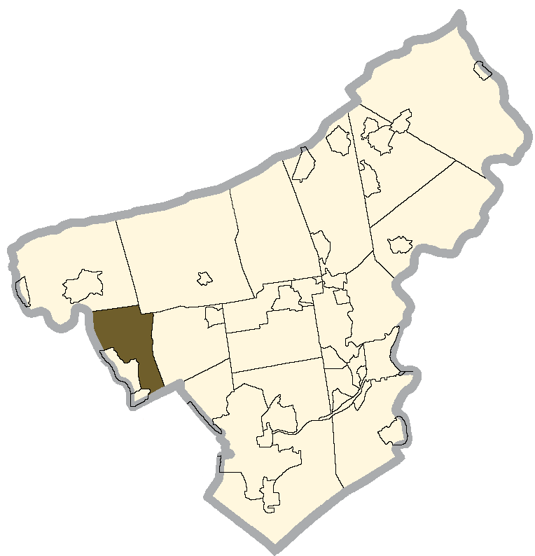 Allen Township shaded on the Northampton county map.